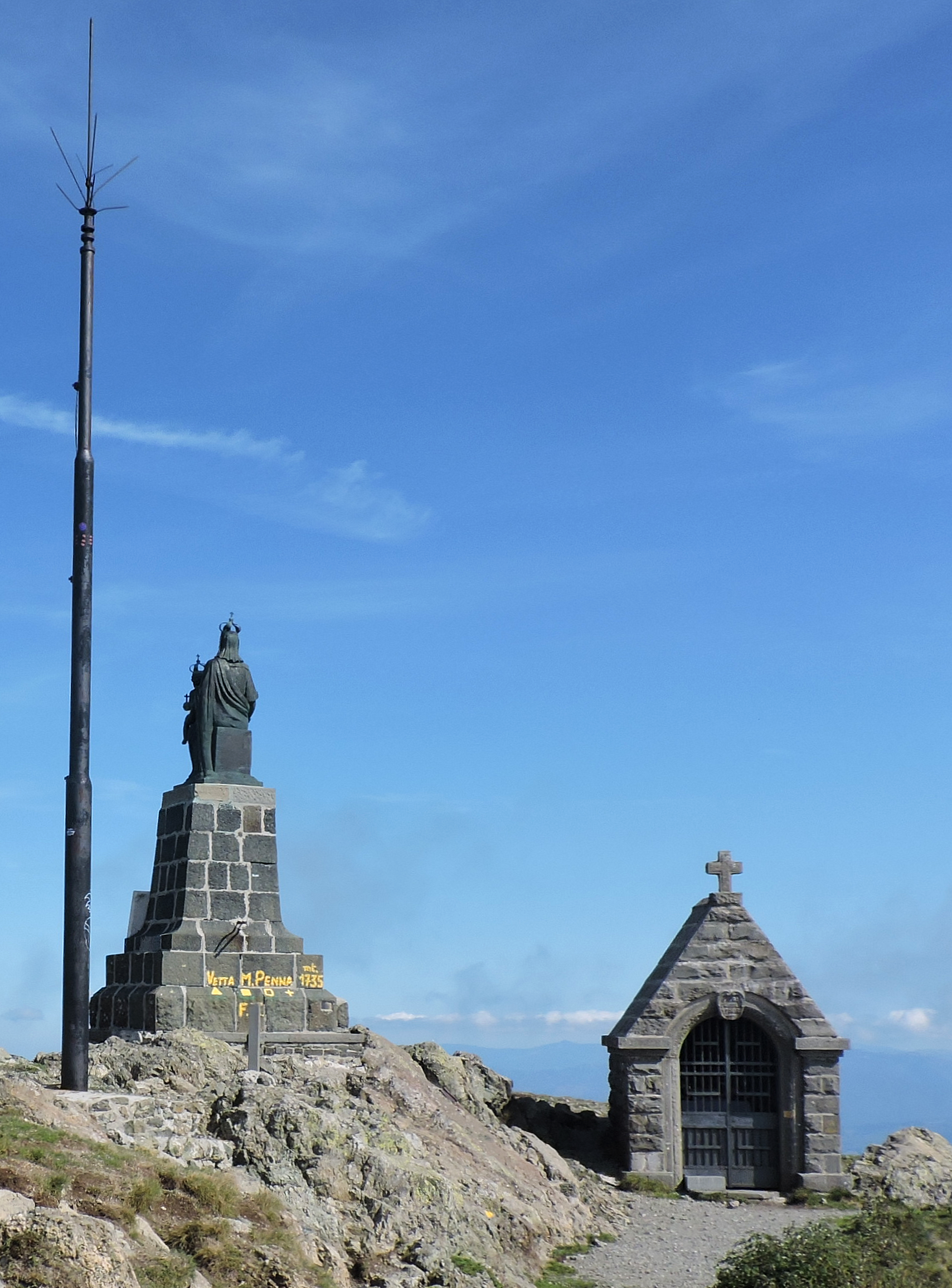 Monte Penna (GE/PR, Ligurian Appennine): the summit